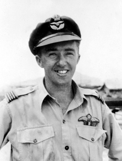 Bofu, Japan. 1947. Informal portrait of Flight Lieutenant Neville Patrick McNamara, No. 82 (Fighter) Squadron, British Commonwealth Occupation Force (BCOF), who was subsequently to be Air Marshal Sir Neville Patrick McNamara after service as Chief of the Air Staff, RAAF, and Chief of the Defence Force Staff.